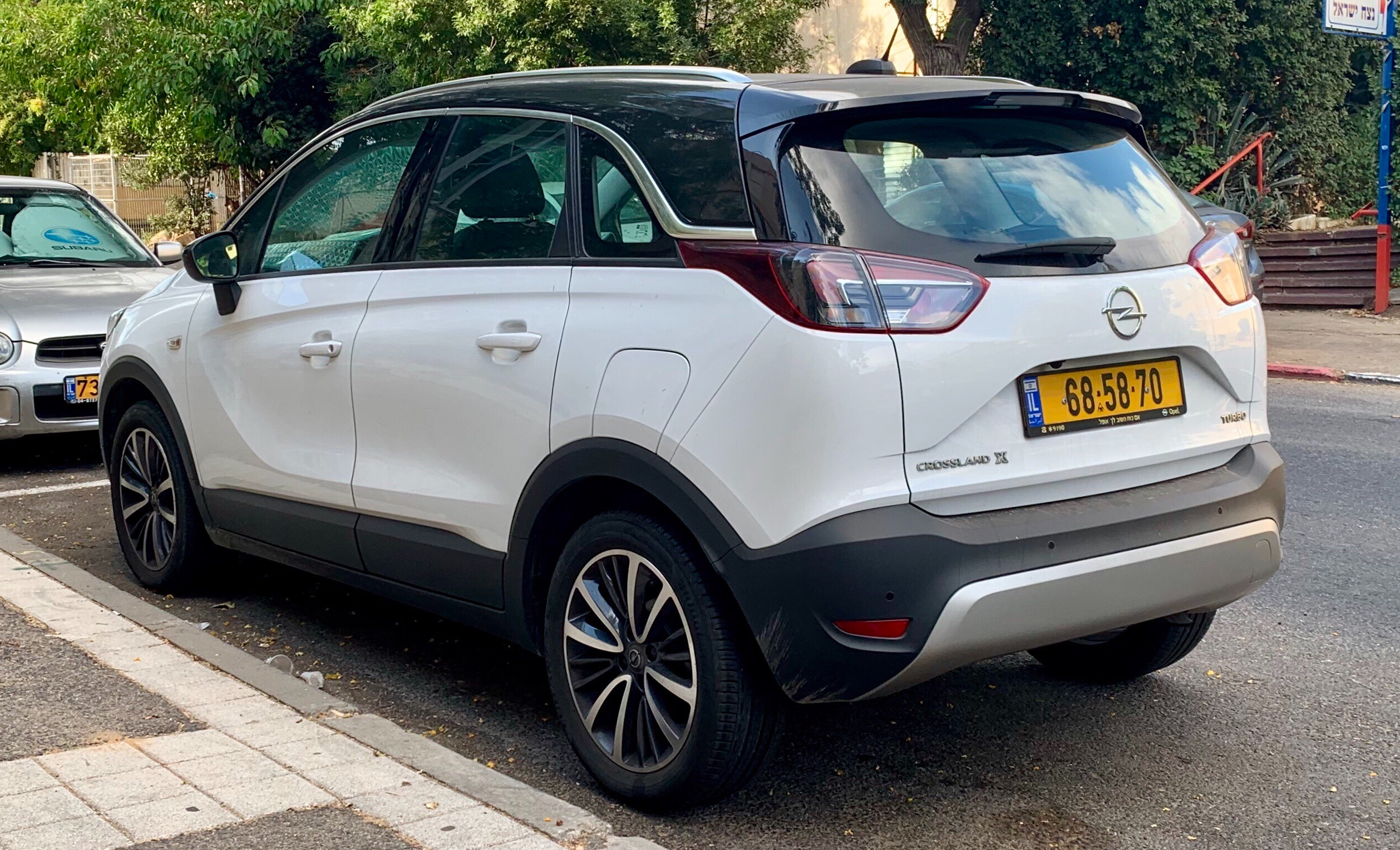 2017 Opel Crossland X in Haifa, Israel